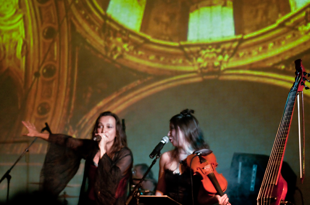 QNTAL performing in Hunt Valley, Maryland in 2010.